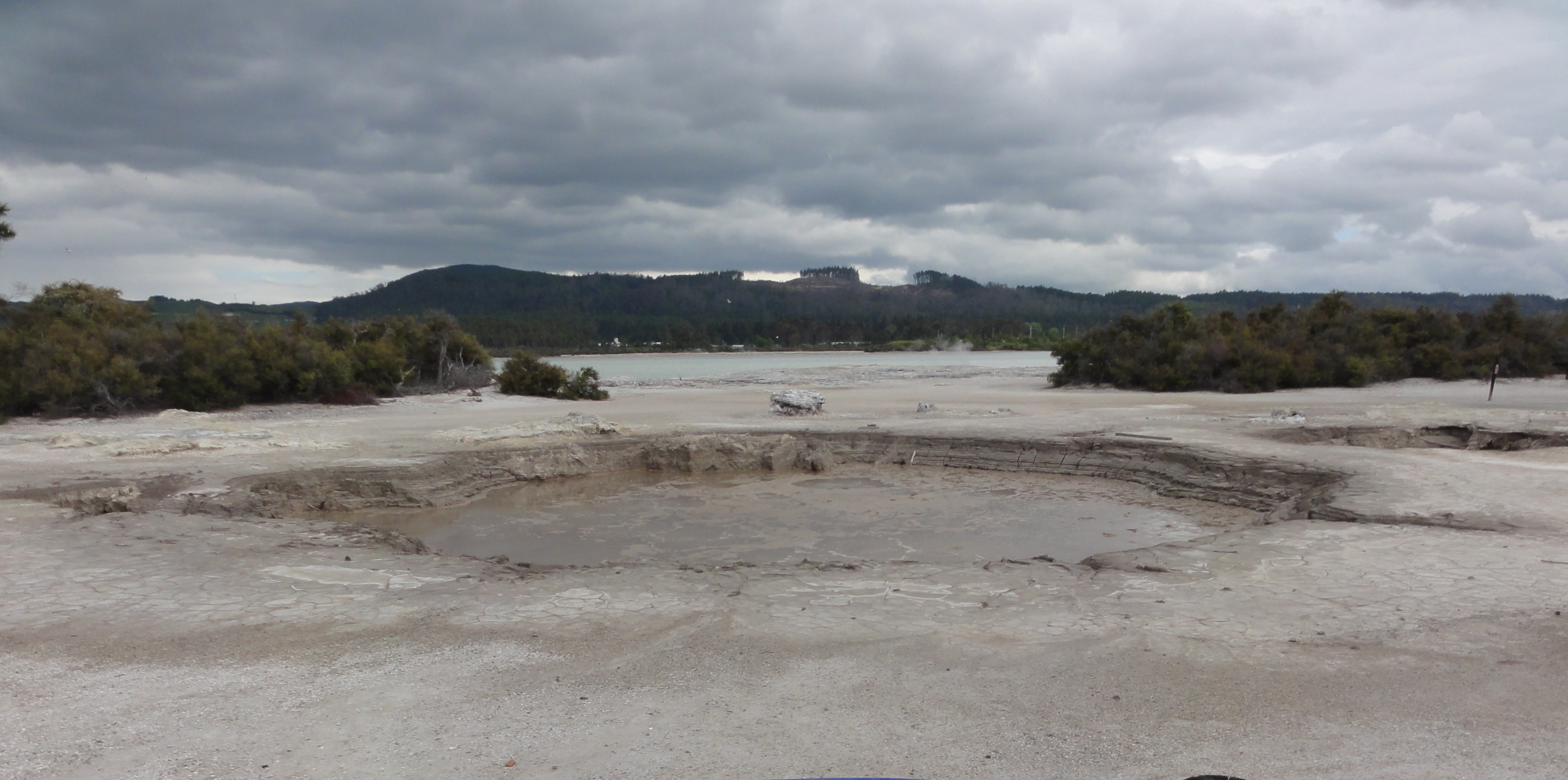 Camerons laughing gas pool, Suphur bay; Rotorua, BOP, New Zealand